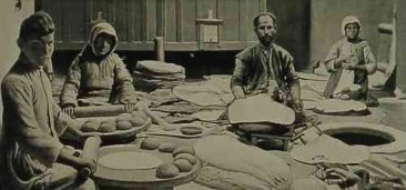 The making of lavash in 1906.